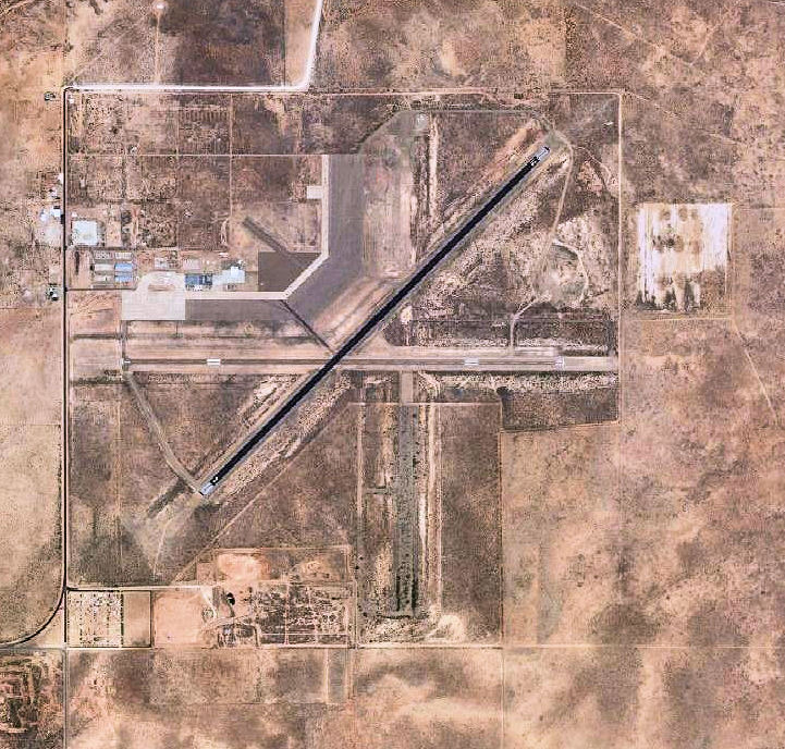 USGS digital orthophoto of Fort Sumner Municipal Airport in New Mexico